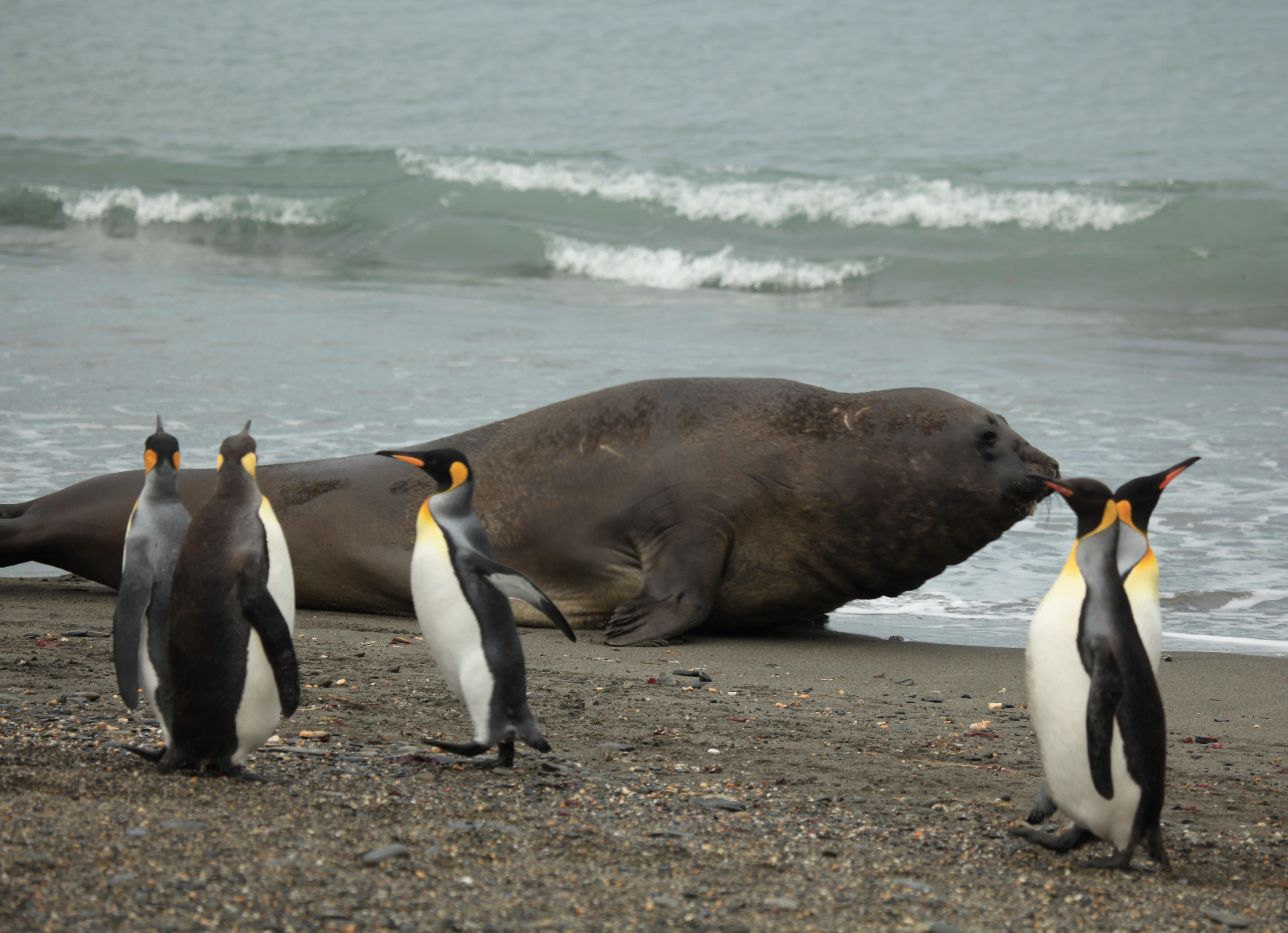 At Moltke Harbour, South Georgia.